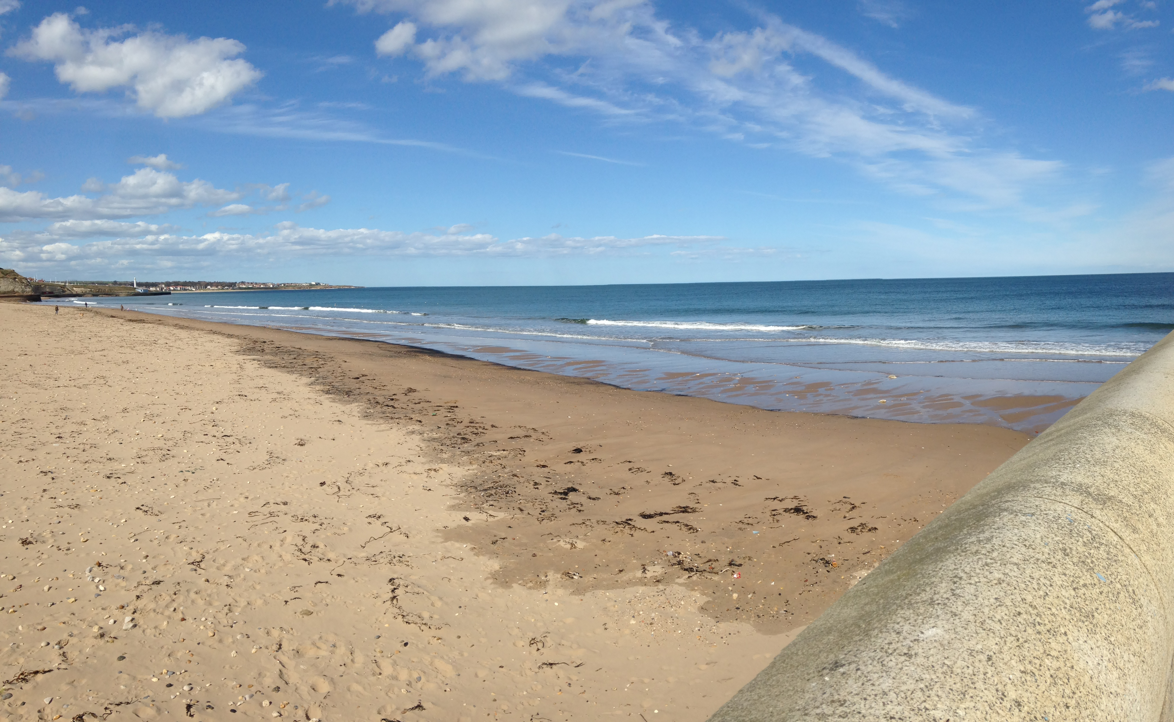 View of the beach of Sunderland